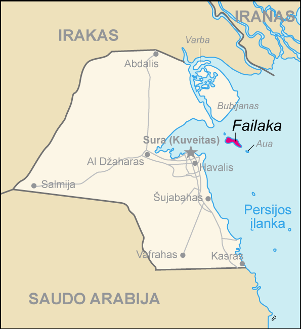 Failaka. Islands of Kuwait (Lithuanian version)